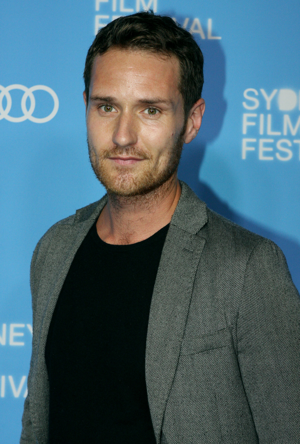 The Way Way Back Australian Movie Premiere - Toni Collette At State Theatre, Sydney, Australia - 6th June 2013